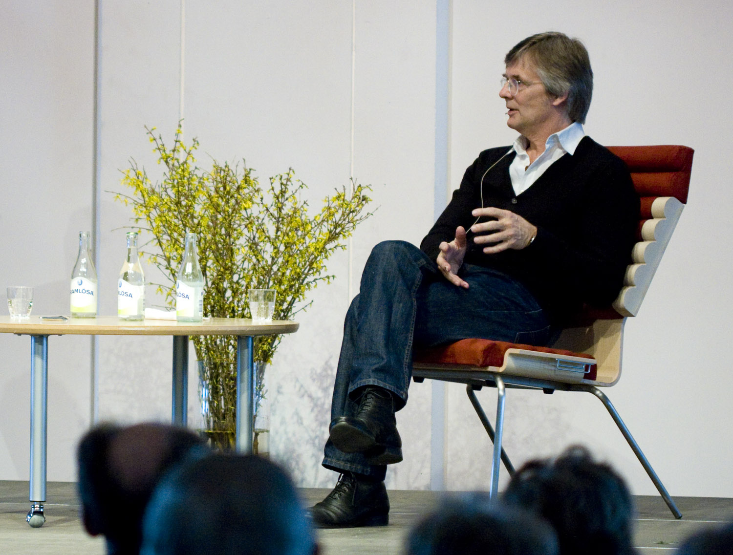 A picture of Bille August, taken during the film festival "Nordiska Filmdagar" in Helsingborg, Sweden